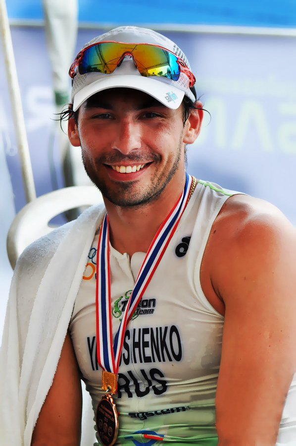 Samui